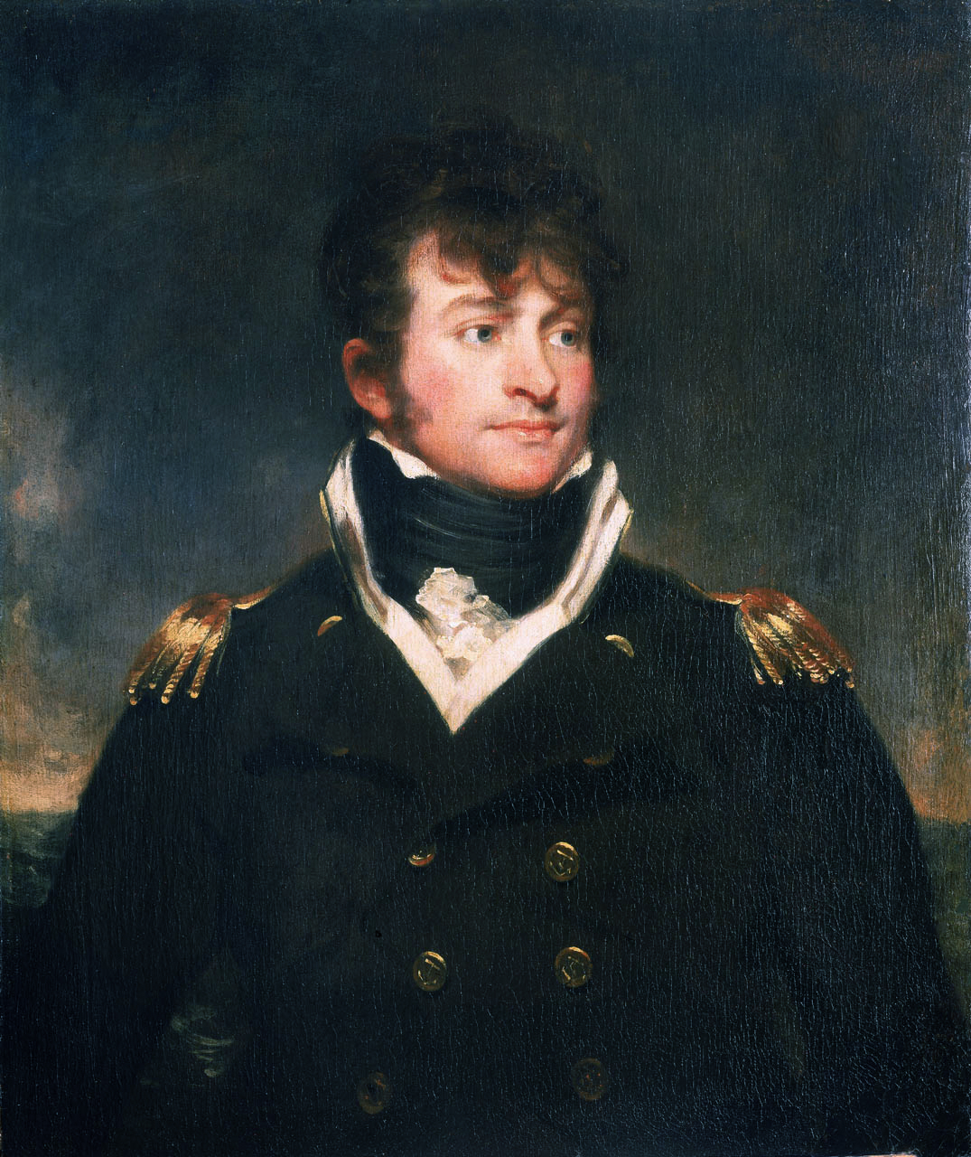 Oil painting: 927 x 802 x 78 mm. Half-length portrait of Samuel Hood Linzee slightly to right, wearing captain's undress uniform.